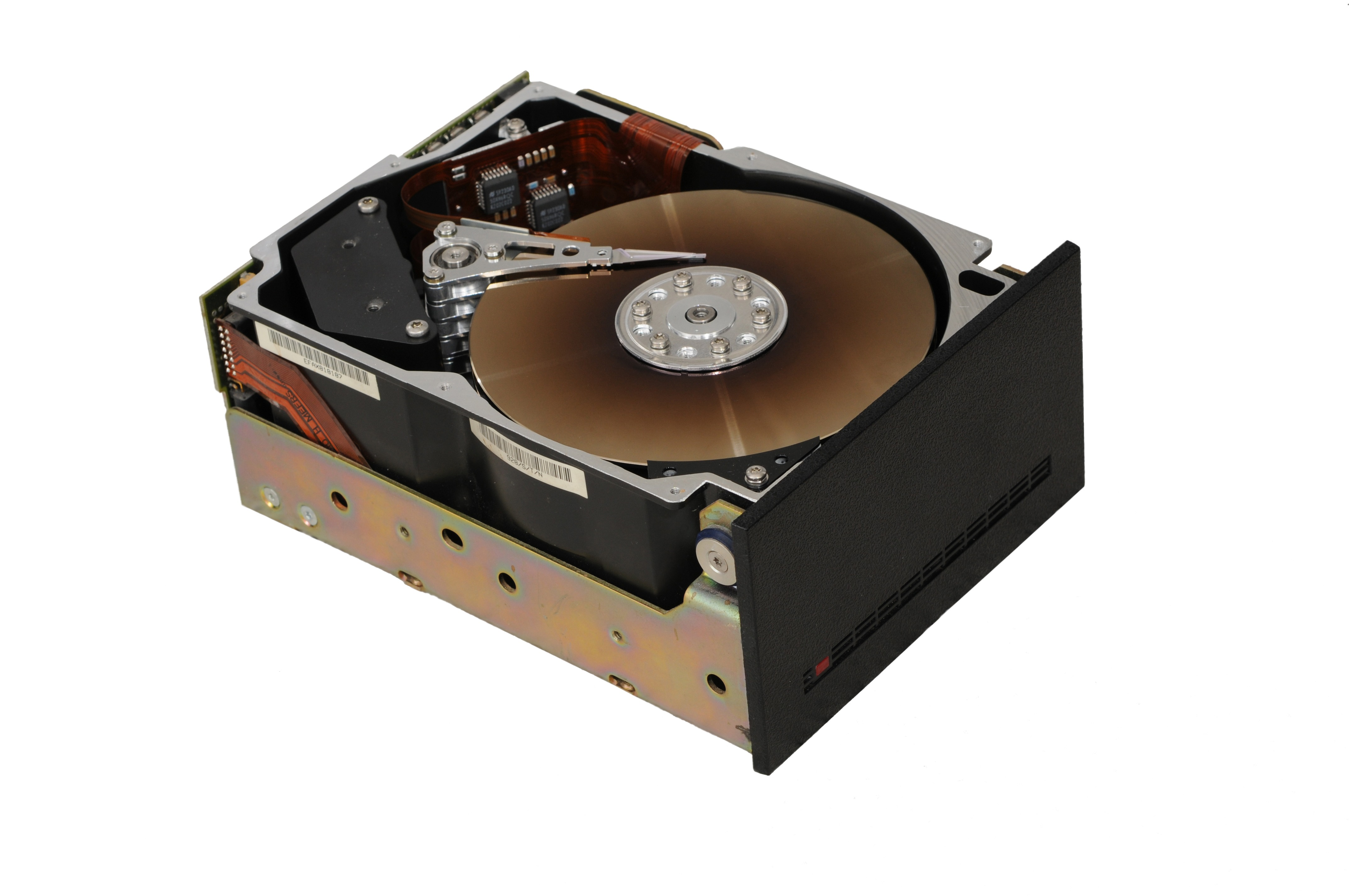 Hard disk Seagate ST4702N (front view), 1991, 5.25 inch, full height, 8 discs, 15 heads, 1546 cylinders, 50 sectors/track, SCSI1, capacity formatted 601 MB)